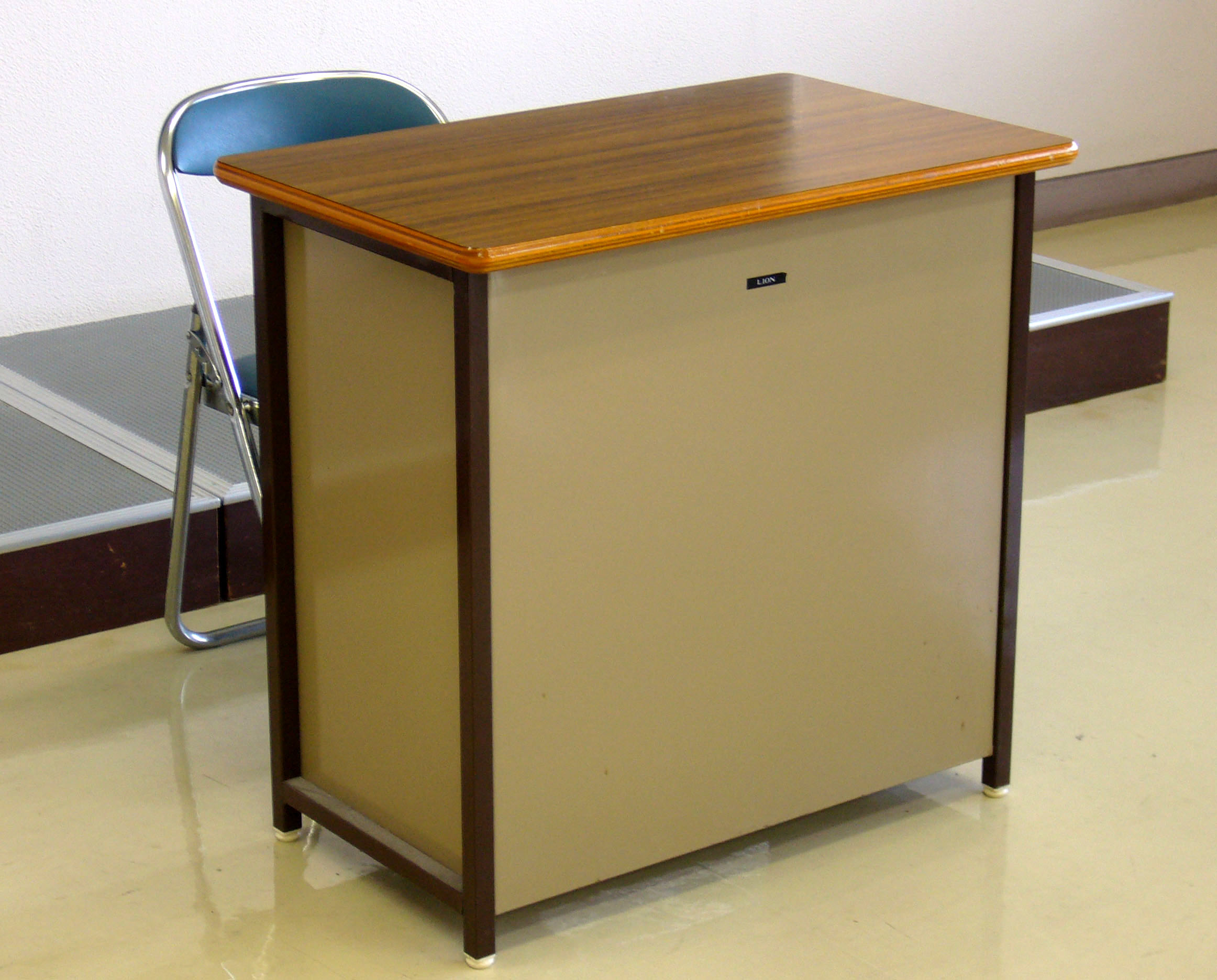 Teacher's desk made of steel